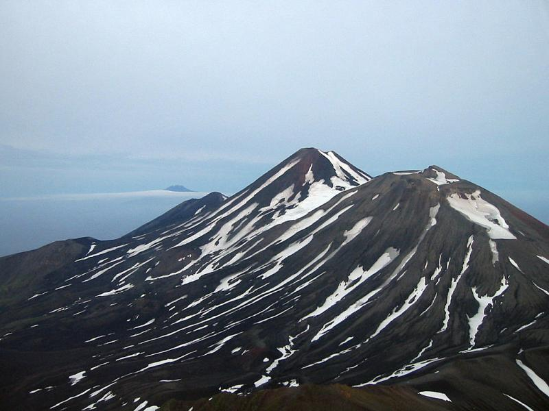 Helicopter on approach to Tanaga.